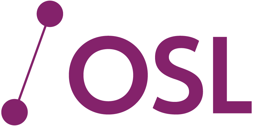 Logo of Oslo airport, Gardermoen